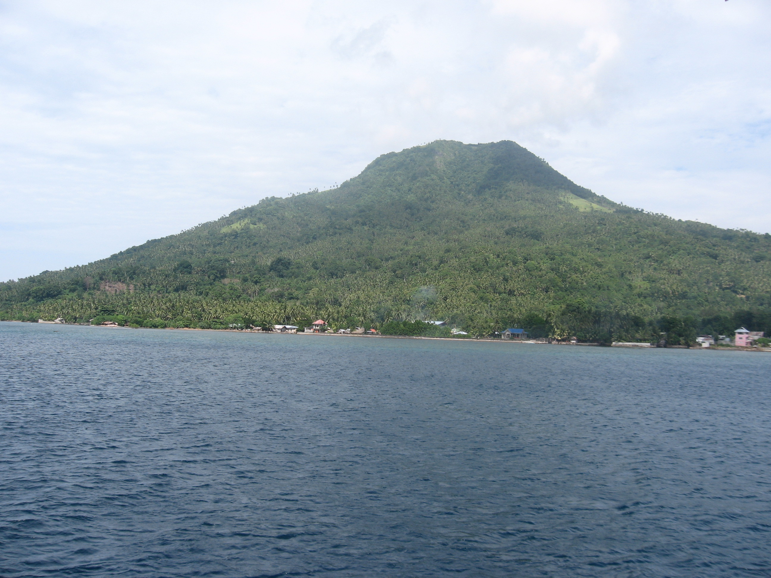 Camiguin Island, Northern Mindanao